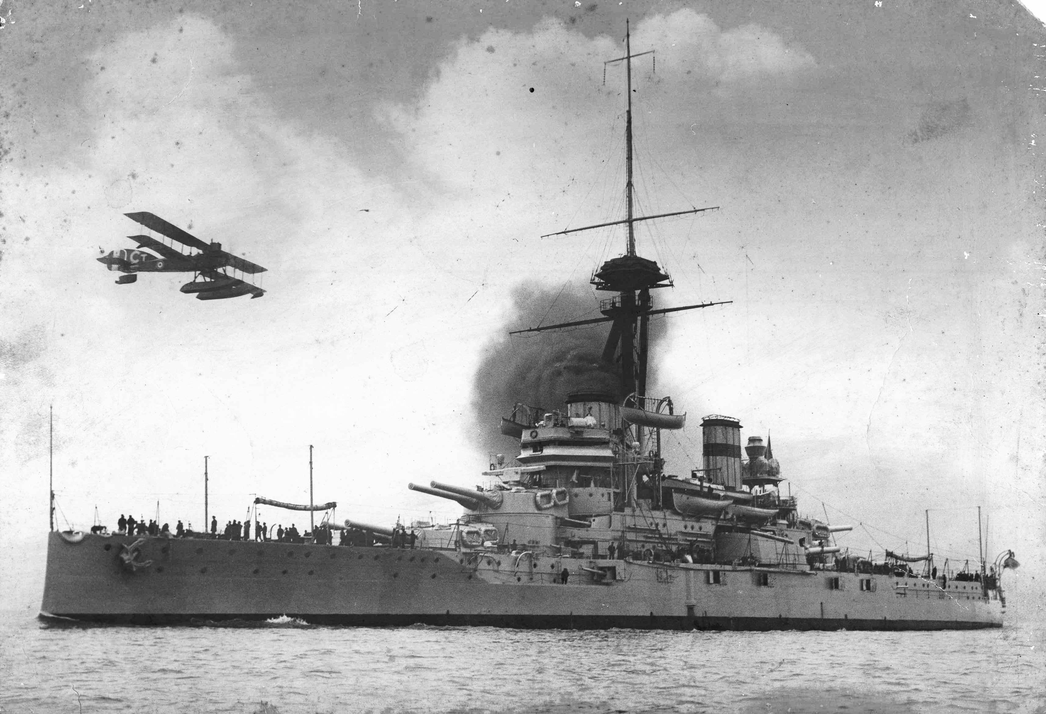 Brazilian battleship São Paulo at an unknown date.